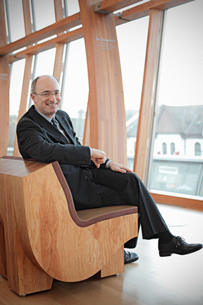 Matthew Teitelbaum, the Art Gallery of Ontario's Michael and Sonja Koerner director, and CEO